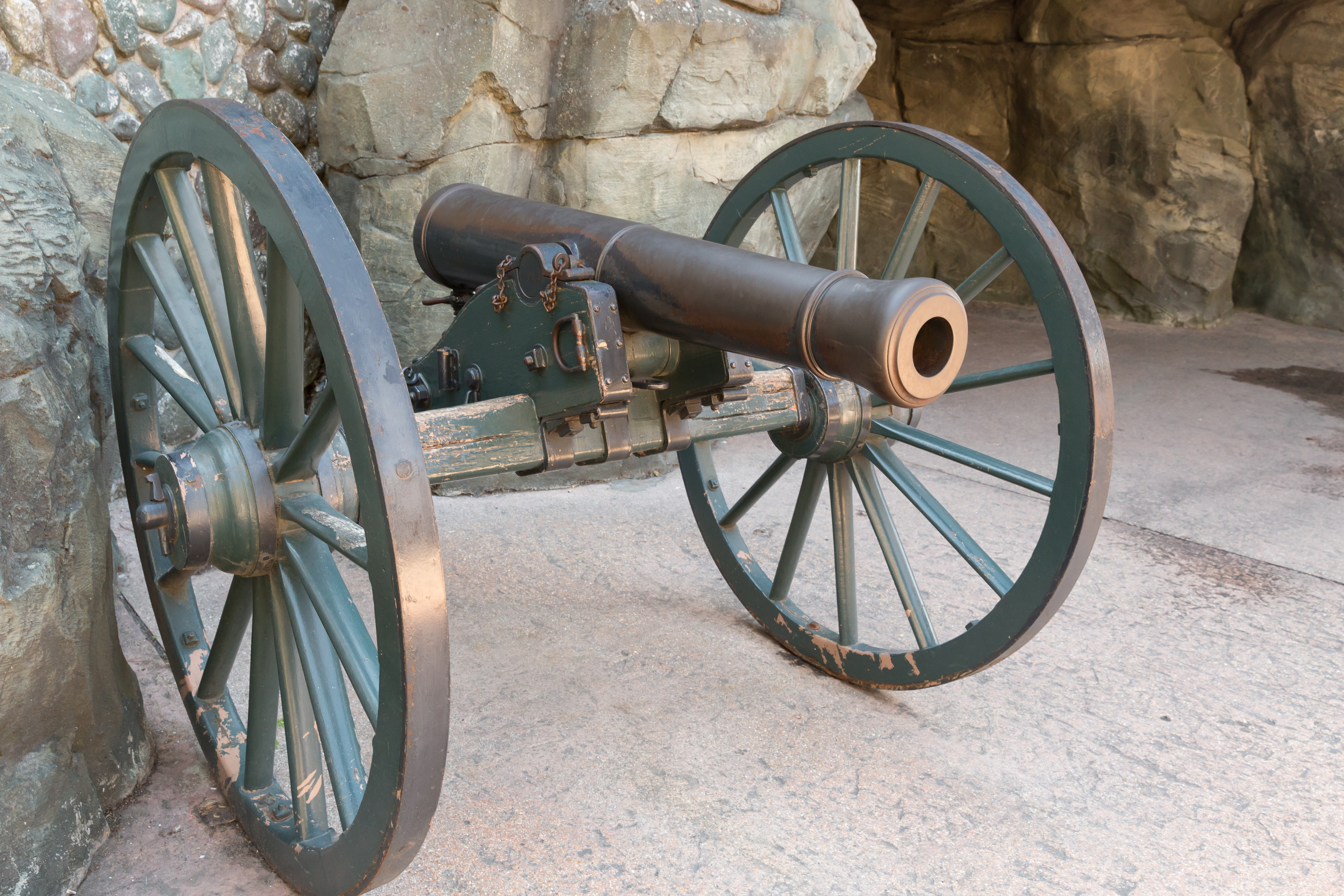 Canon obusier de 12 to Disneyland Paris.